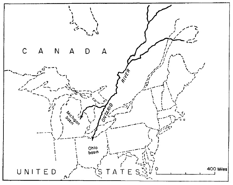 Sketch map showing the location of the Ontario River, a paleoriver (ancient river) that existed in the Famennian stage of the Devonian period in North America. The Ontario River deposited the Bedford Shale and Berea Sandstone in Michigan, Ohio, and Kentucky.